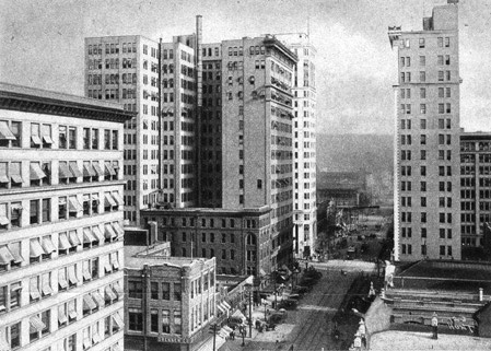 "Some Birmingham Skyscrapers, View Looking South on Twentieth Street from Third Avenue." From the rotogravure section of the Birmingham Age-Herald, Sunday, November 28, 1915.